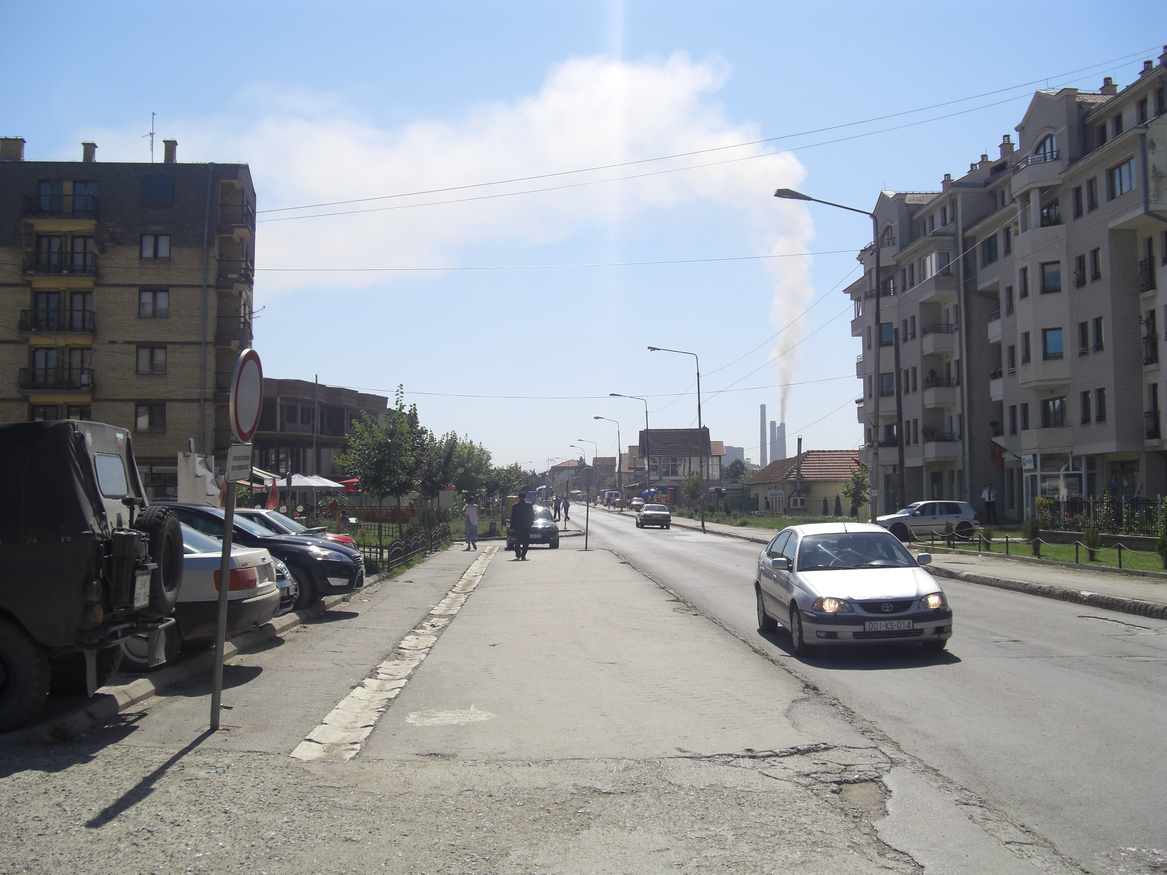 Main street in Kastriot/Obilic looking towards Kosovo A